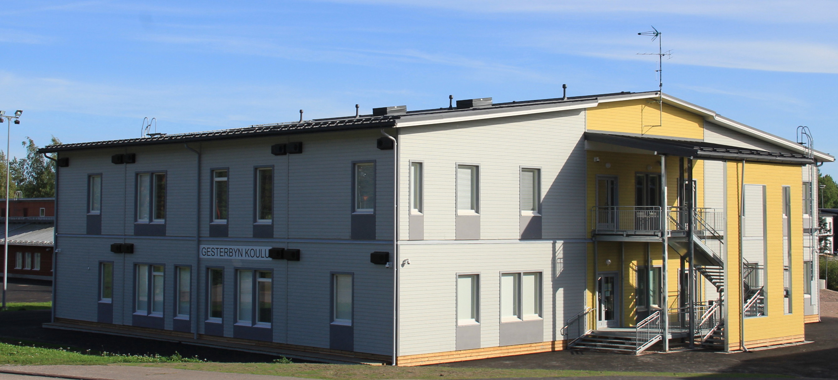 Gesterby temporary school building, Gesterby, Kirkkonummi, Finland.